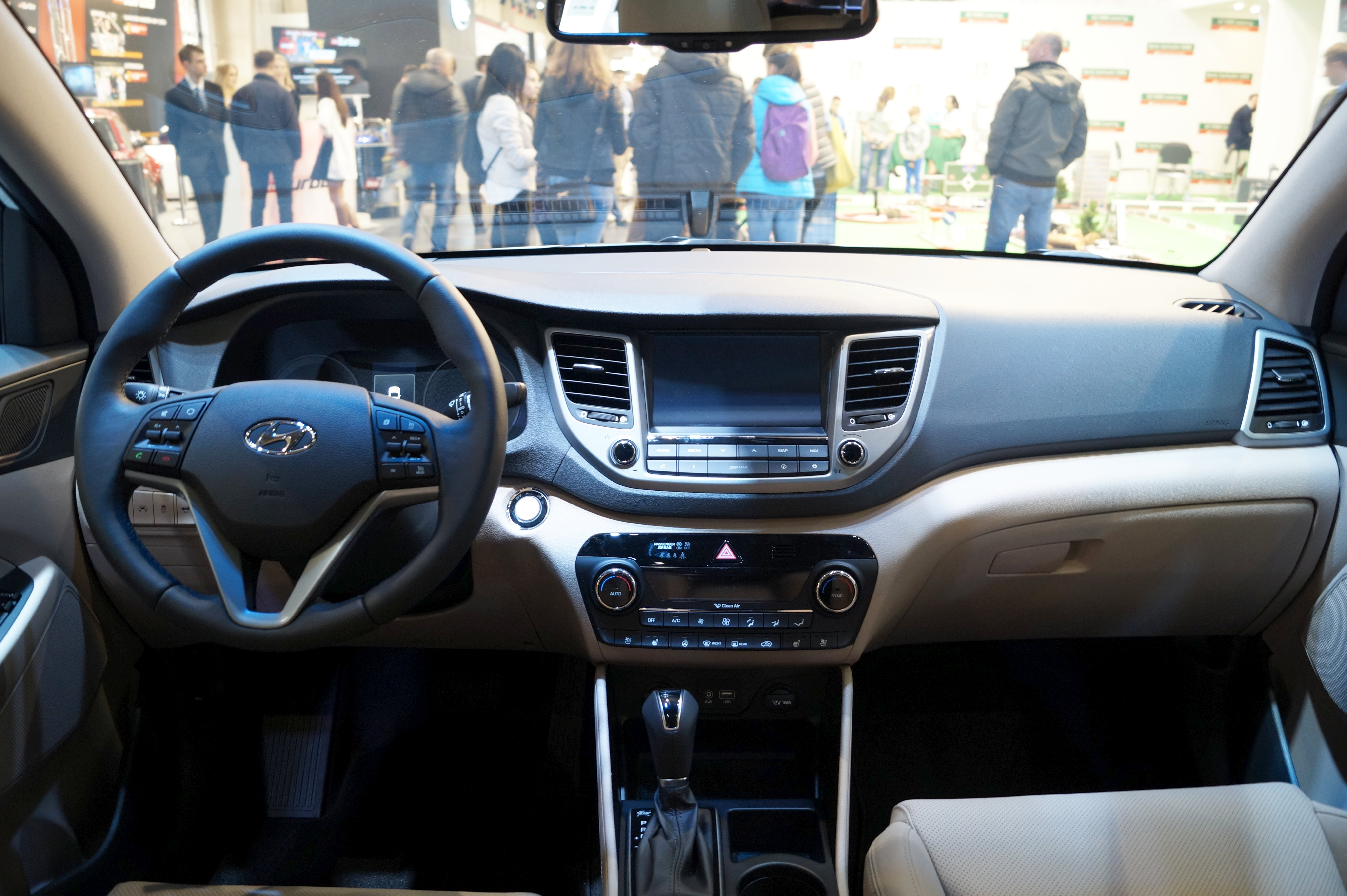 The making of this document was supported by Wikimedia Polska Association, within Wikigrant no. WG 2016-10. Wnętrze Hyundaia Tucsona na Motor Show Poznań 2016